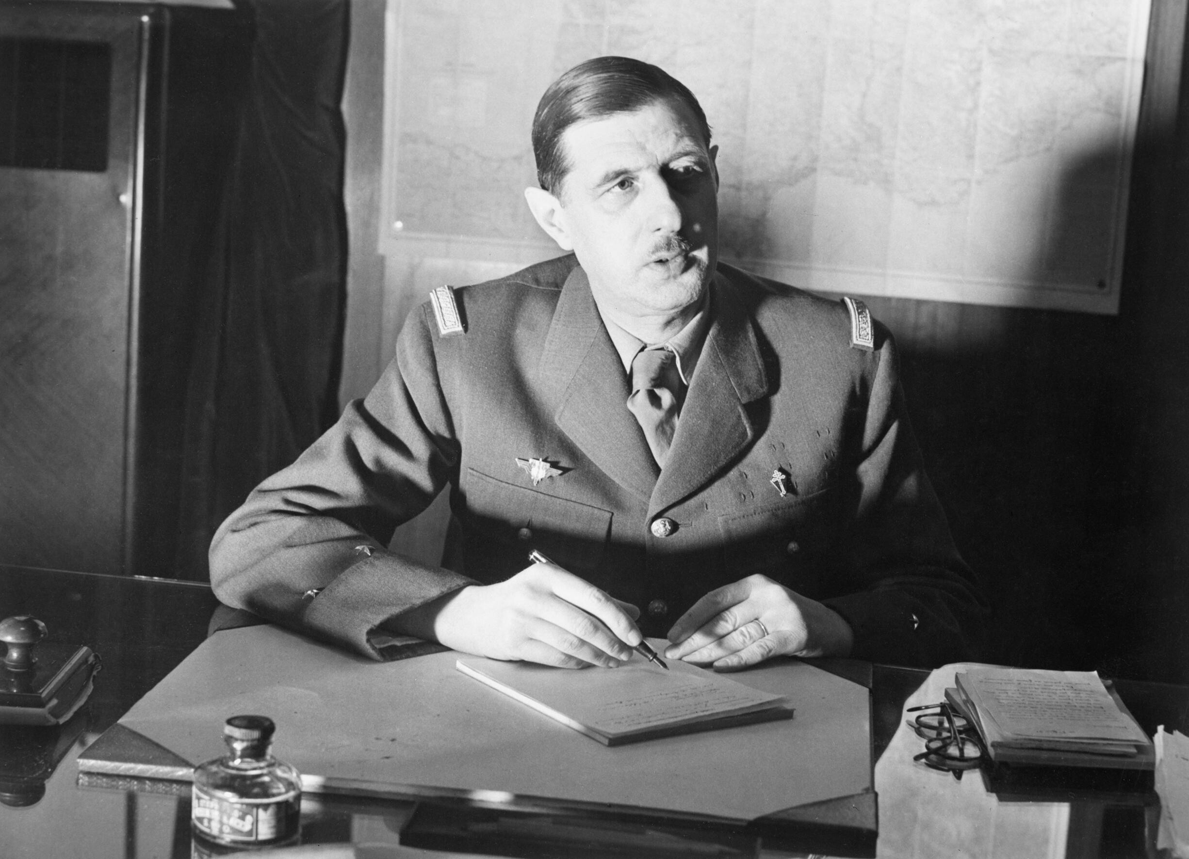 Commander of Free French Forces General Charles de Gaulle seated at his desk in London during the Second World War. Commander of Free French Forces General Charles de Gaulle seated at his desk in London during the Second World War.